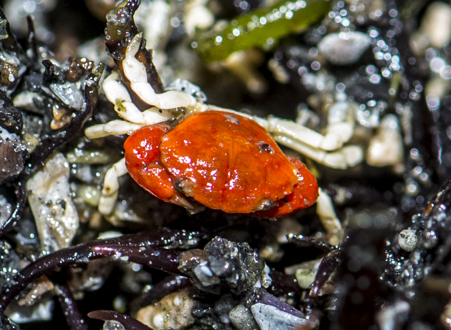 I had never seen this little crab before. Beautiful color with white legs. Colors vary.